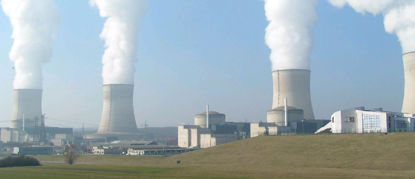 Nuclear power plant in Cattenom, France